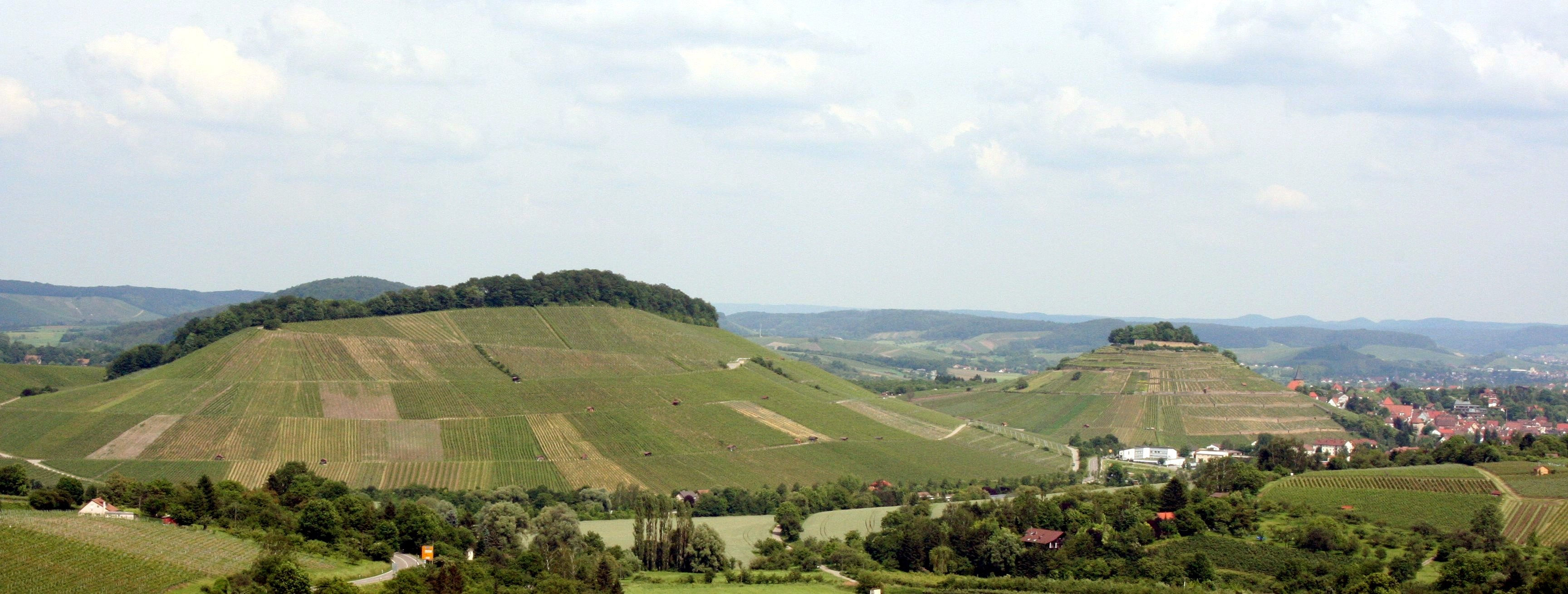 Schemelsberg (left) and Burgberg hills (mountains) in Weinsberg, as seen from the Wartberg in Heilbronn